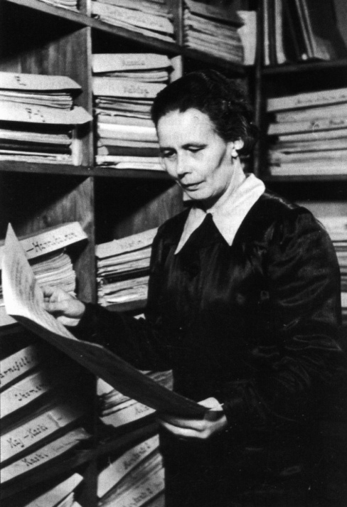 Photograph of the Finnish composer Helvi Leiviskä (1902–1982).